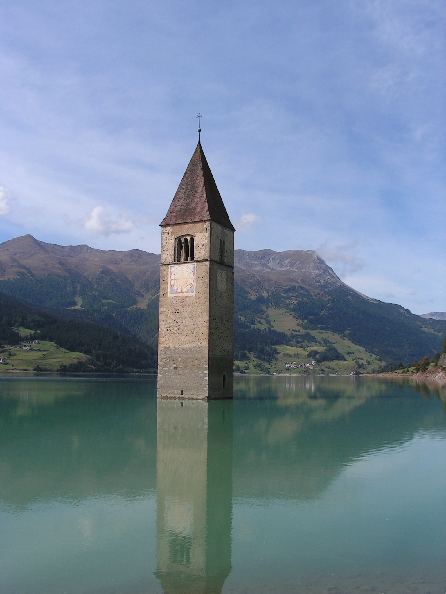 The belltower of the church of Curon Venosta (Graun im Vinschgau), submerged by the water of the Lake of Resia.